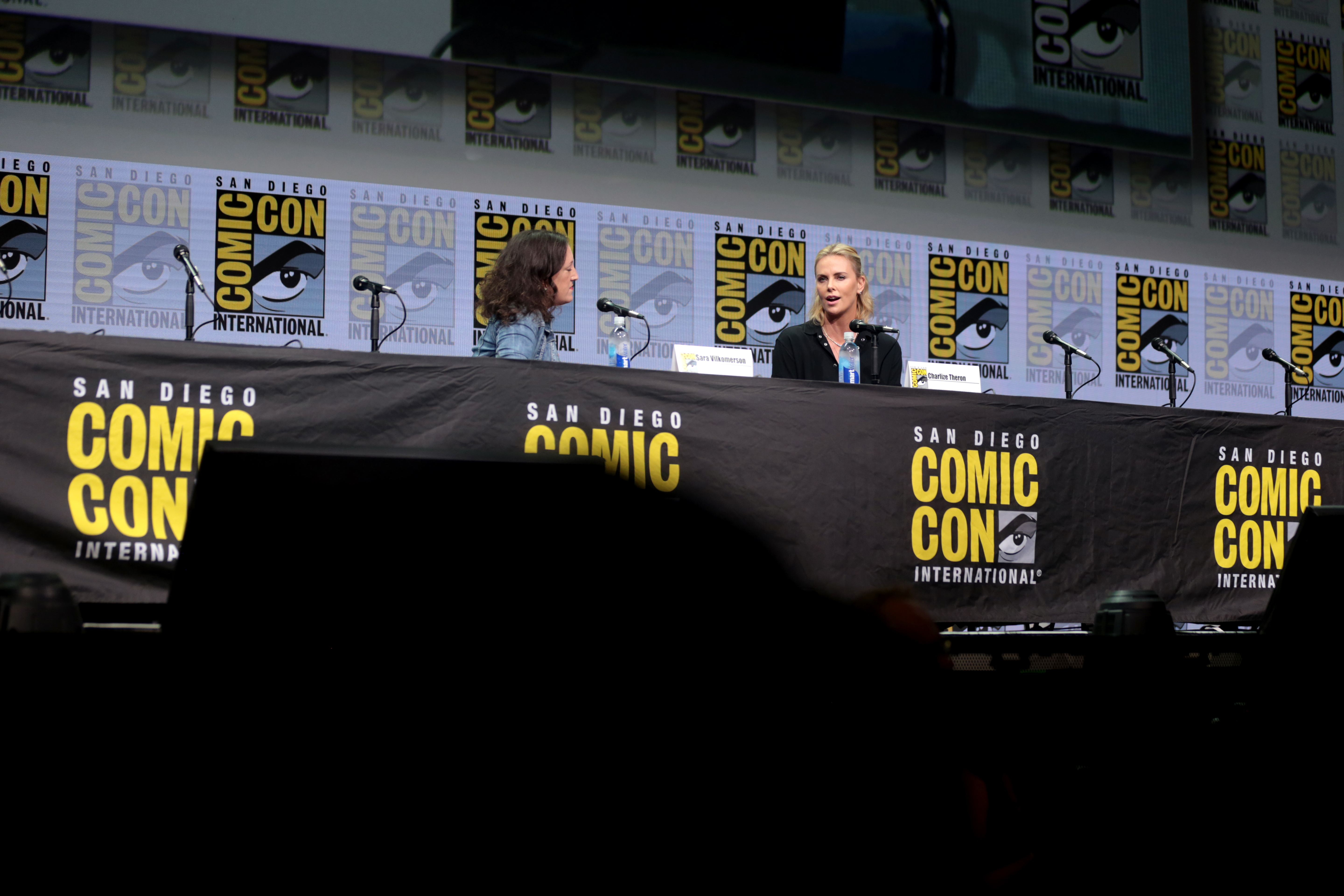 Sara Vilkomerson and Charlize Theron speaking at the 2017 San Diego Comic Con International, for "Entertainment Weekly: Women Who Kick Ass", at the San Diego Convention Center in San Diego, California.